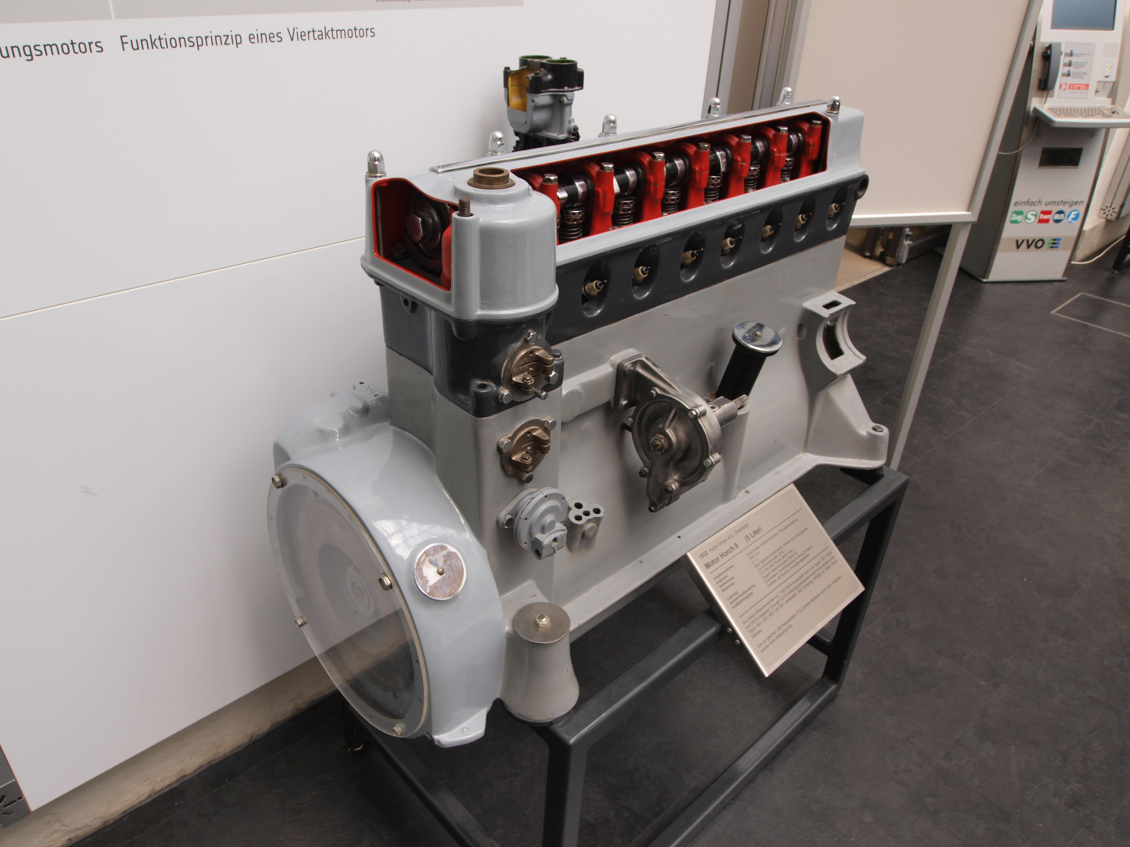 Photo taken without a tripod (was not permitted!) 1932 engine of a Horch 8 (5 liter)